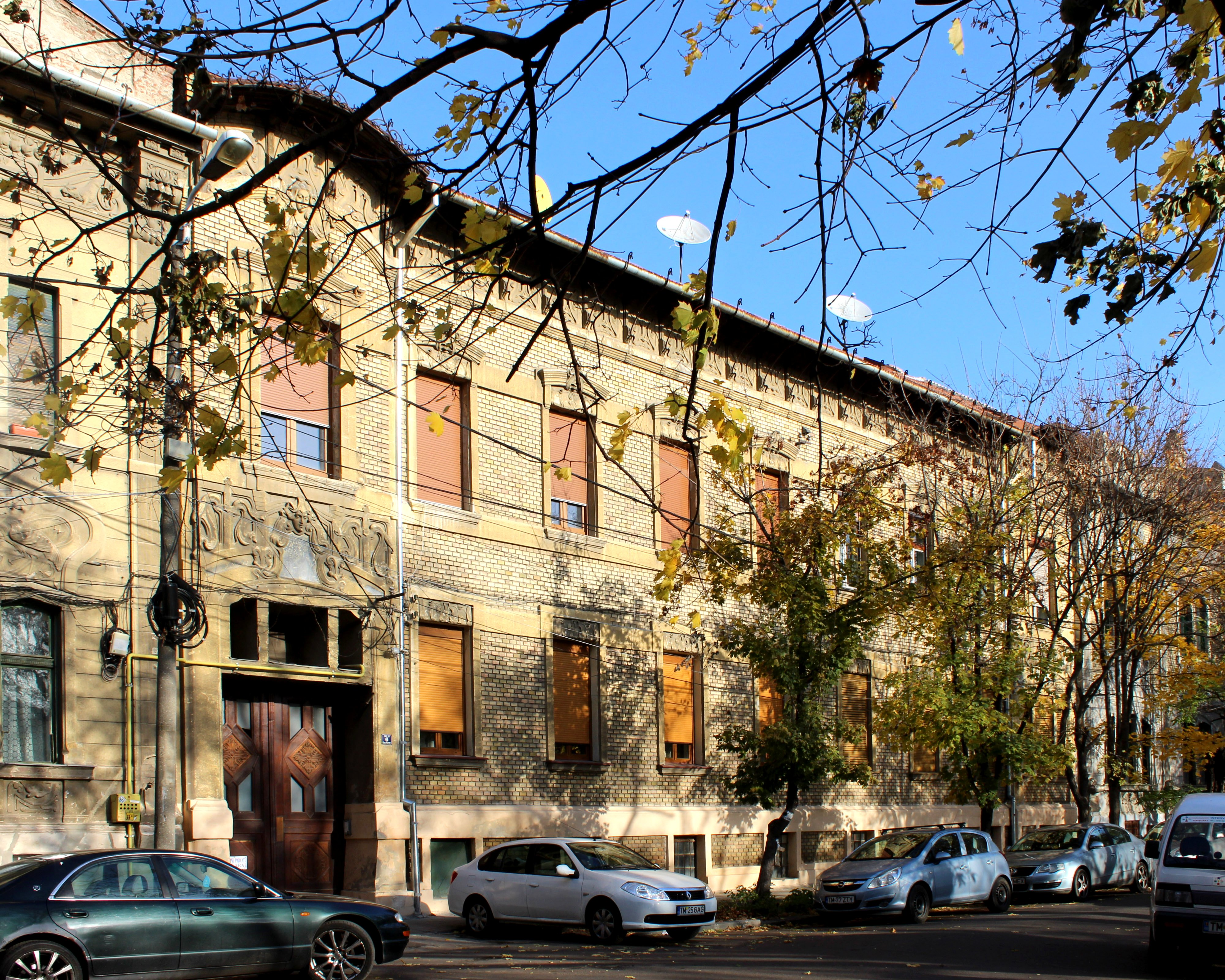 Dr. Junkert House, Timișoara, Romania, built 1910